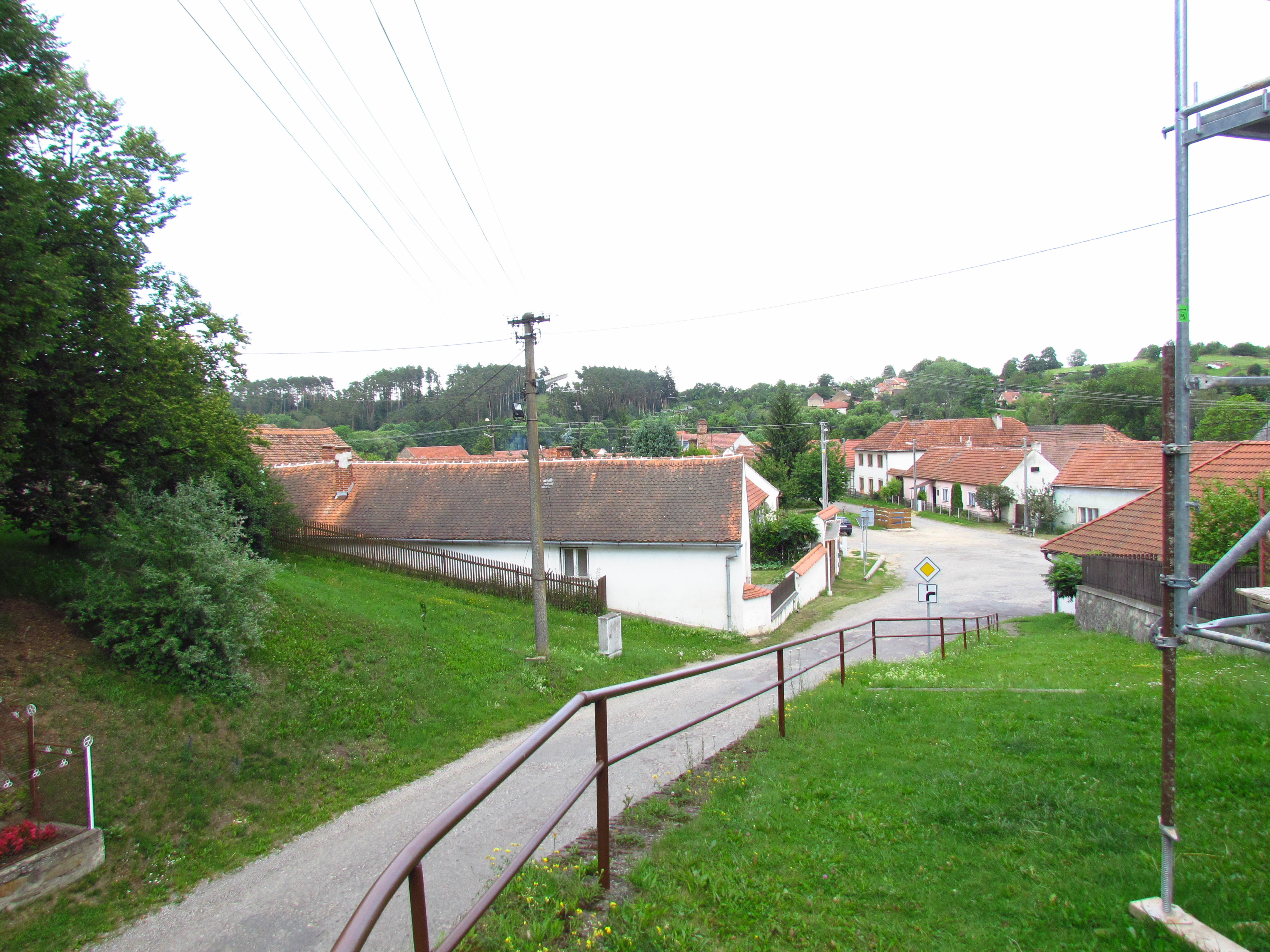 Upper view of Biskupice, Třebíč District.